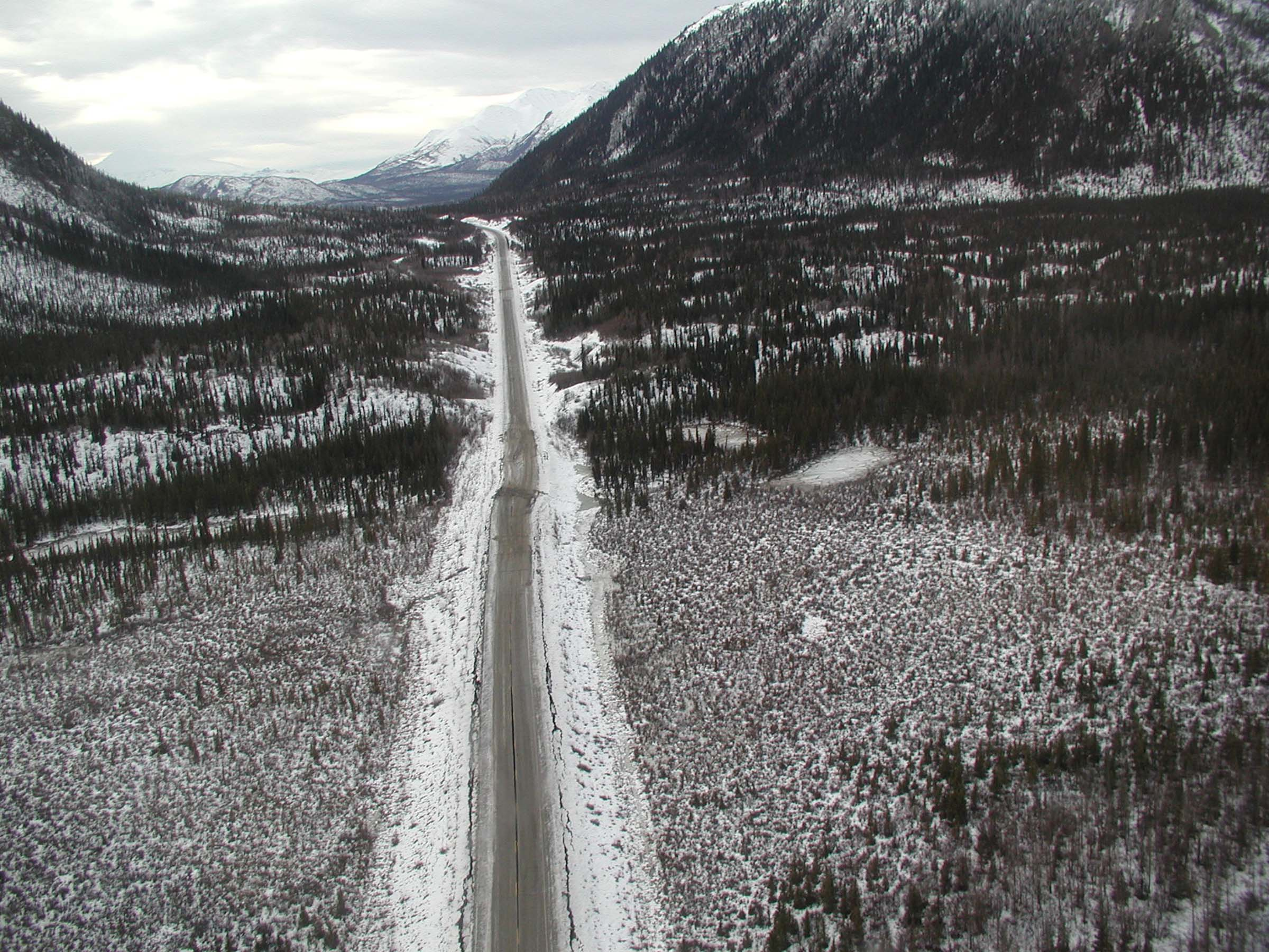 Fault offset of Tok cutoff highway. On the ground researchers estimated offset as 23 feet (6 m).